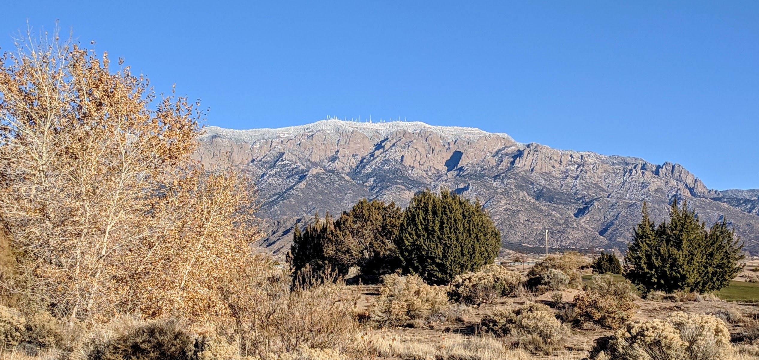 Sandia Crest with a wisp of snow, viewed from Sandia Resort & Casino, just north of Albuquerque.